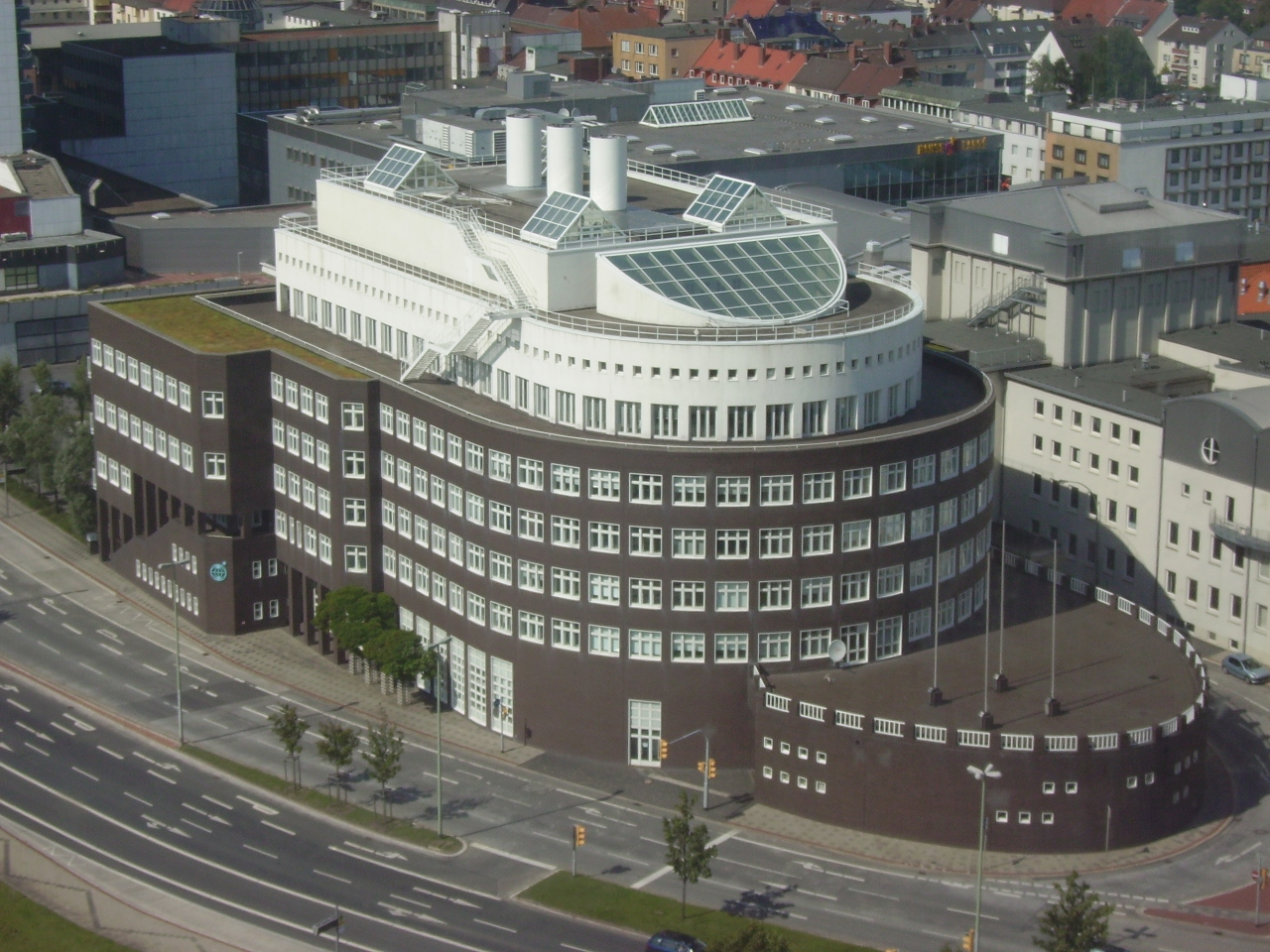 The Alfred Wegener Institute of Polar and Marine Research in Bremerhaven, Germany. Building near the Old Port in the city.